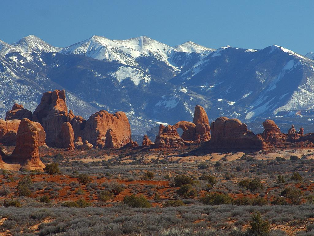 Arches National Park, Utah, with the La Sal Mountains behind